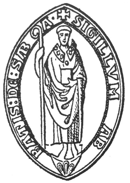 The seal of the medieval cistercian monastery in Julita, Sweden. The abbey was also known as Säby, in latin Saba.